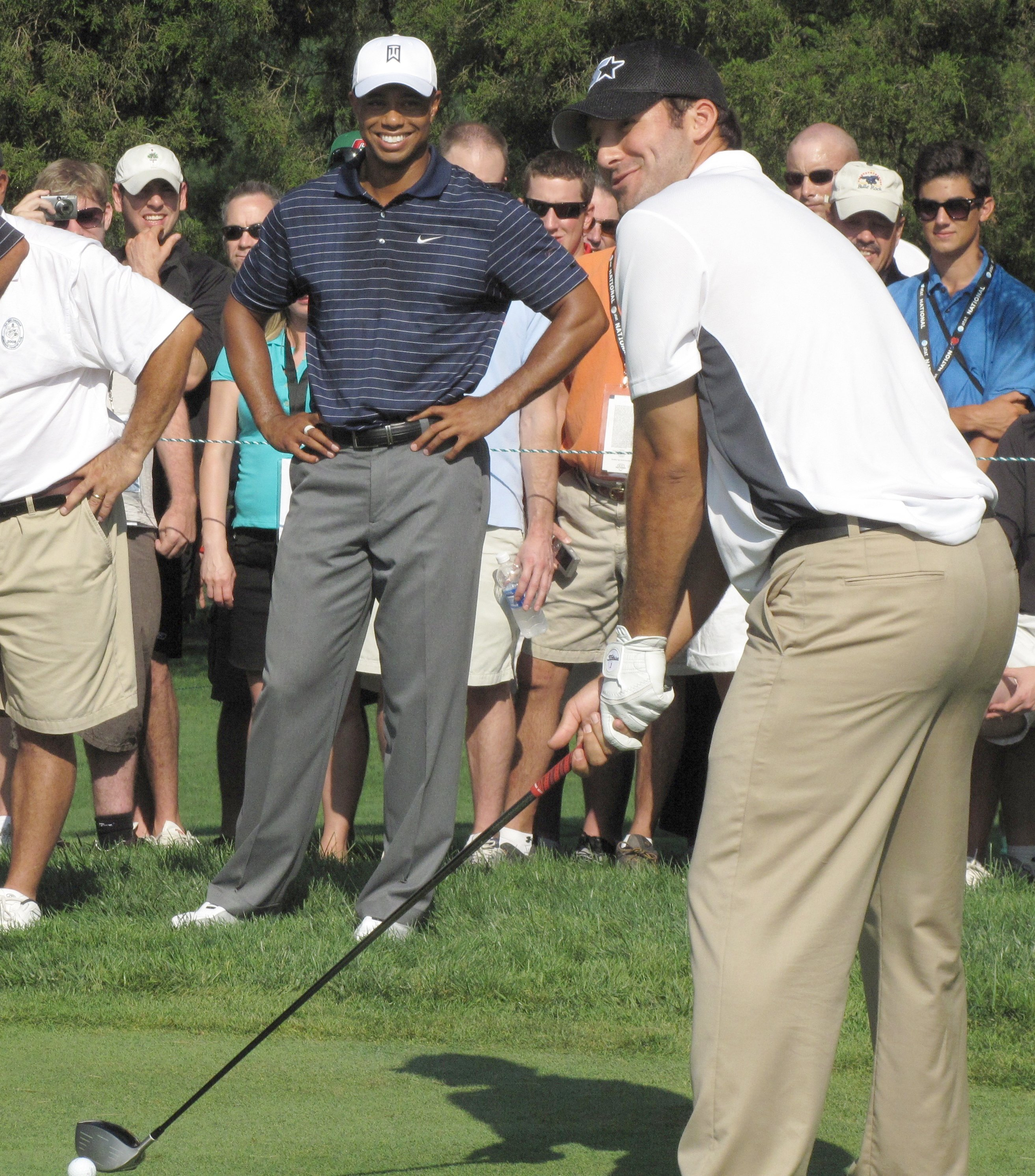 Tiger Woods and Tony Romo AT&T National